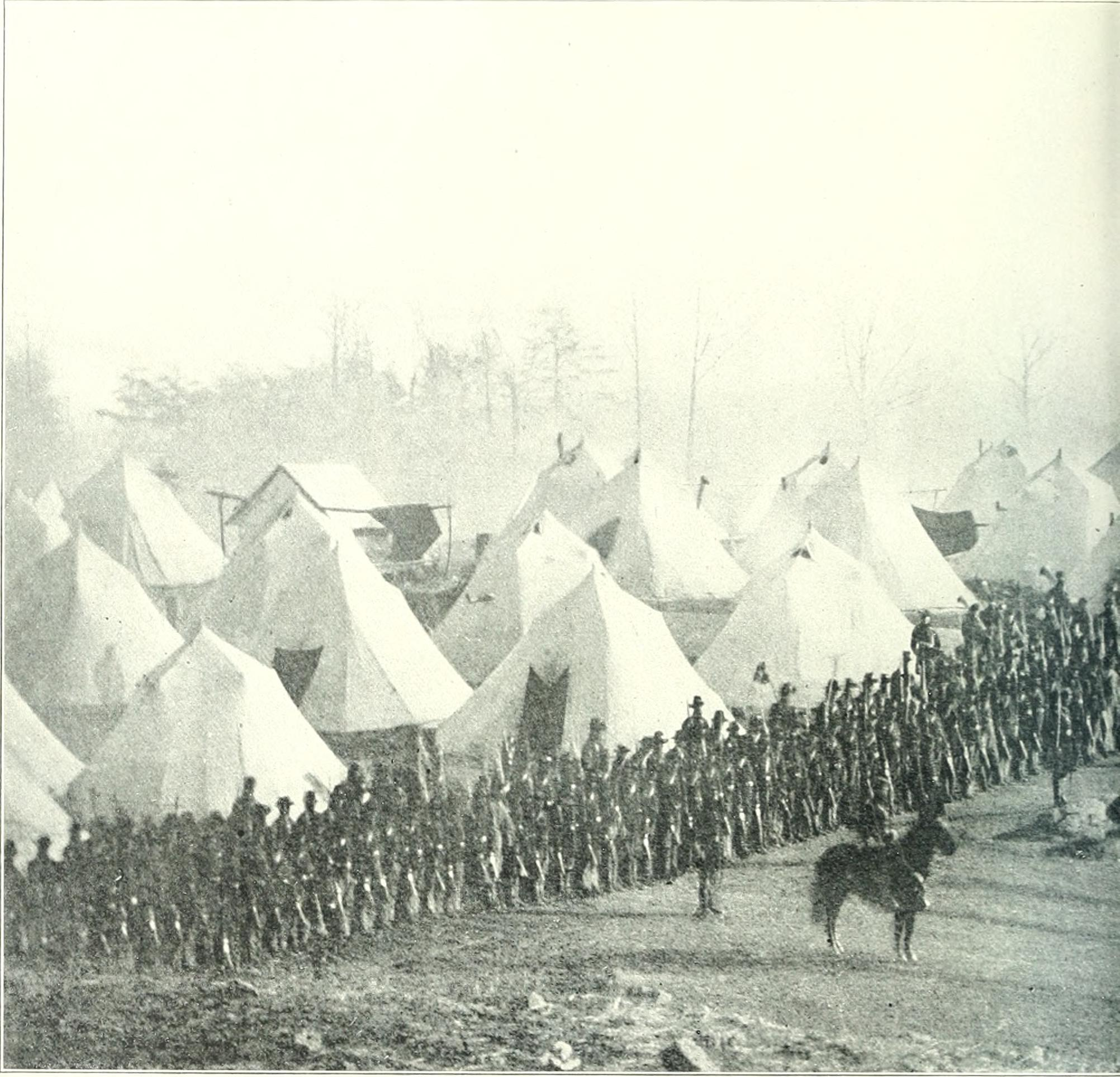 Title: The photographic history of the Civil War : thousands of scenes photographed 1861-65, with text by many special authorities Year: 1911 (1910s) Authors: Miller, Francis Trevelyan, 1877-1959 Lanier, Robert S. (Robert Sampson), 1880- Subjects: United States -- History Civil War, 1861-1865 Pictorial works United States -- History Civil War, 1861-1865 Publisher: New York : Review of Reviews Co. Text Appearing Before Image: A SOLDIER GROUP IN A MOMENT FIT FOR SONG—THE 170T1I NEW YORKON RESERVE PICKET DUTY Text Appearing After Image: THE ISATTLE HYMN OE THE REPUBLIC—A IHNDHEl) f Massachusetts, and her husband. I)r Howe, who, already pasl the age of military service, rendered valuable aid as an officer ofthe Sanitary (lommission. Of her visit she writes in her Reminiscences: On the return from the review of troops near the city, tobeguile the rather tedious drive, we sang from time to time snatches of the army songs so popular at that time, concluding. 1 think, withJohn Browns body. The soldiers . . . answered back.Good for you! Mr. Clarke said, Mrs Howe, why do you not write some goodwords for that stirring tune? I replied that I had often wished to ilo this, lint had not as yet found in my mind any hading toward it.I went to bed that